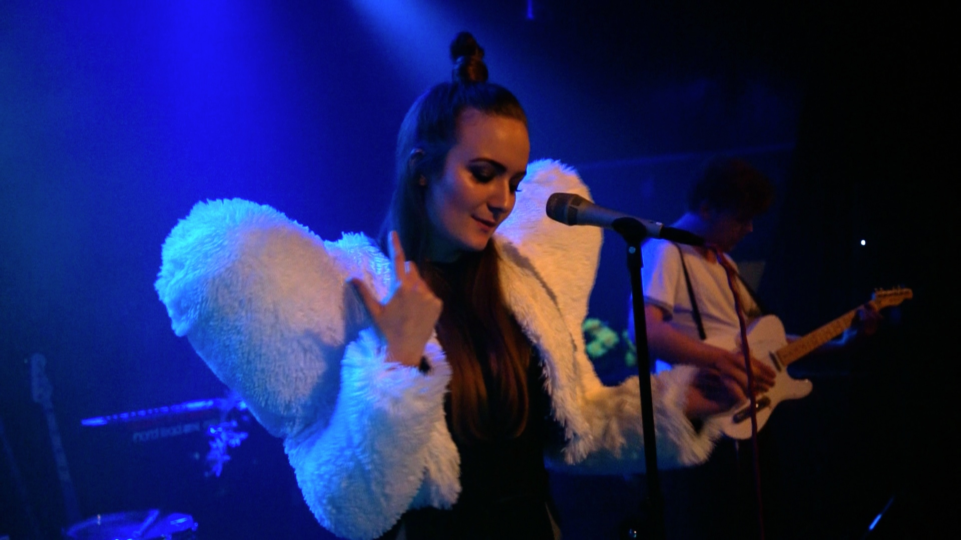 Be The Bear live at Debaser, Stockholm.